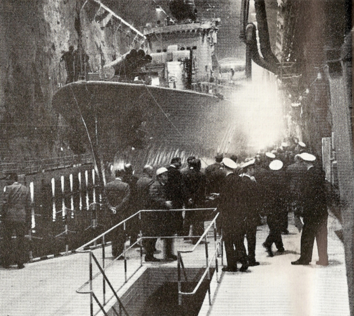 Swedish destroyer HMS Småland in a ship tunnel. The ship was launched in 1952 and decommissioned in 1984. She is today (2010) a museum ship in Gothenburg.